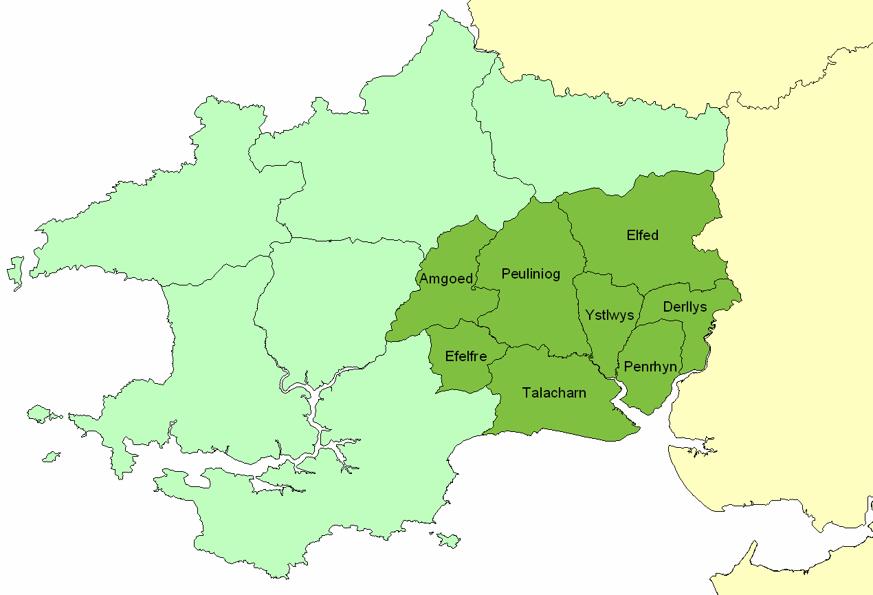 Map of Cantref Gwarthaf in ancient Dyfed, showing its 8 cymydau